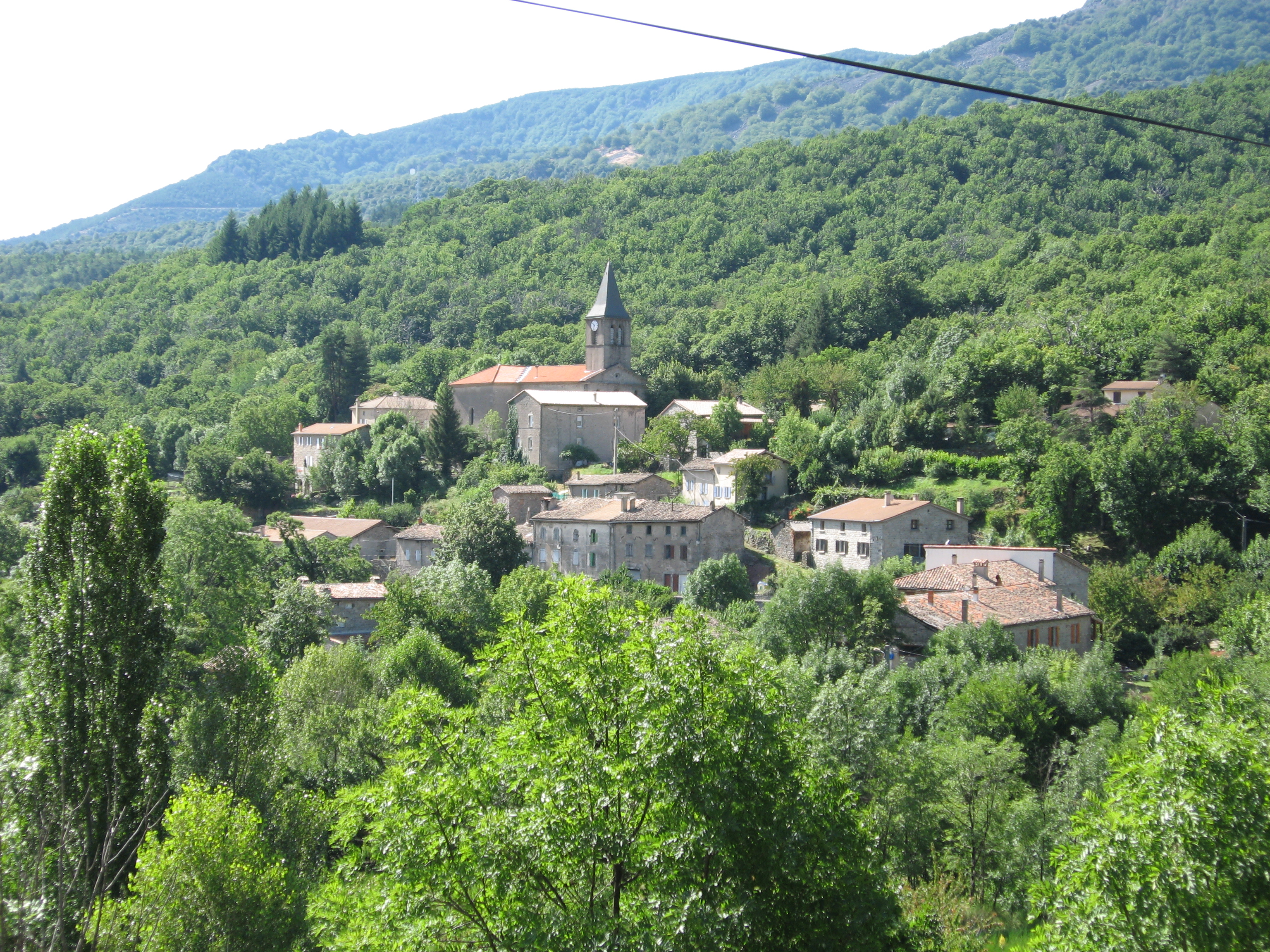 The village La Souche in the Ardeche, France.